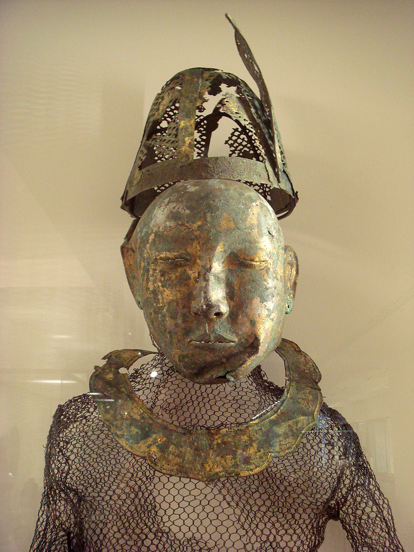 Funerar yMask Liao 10th century